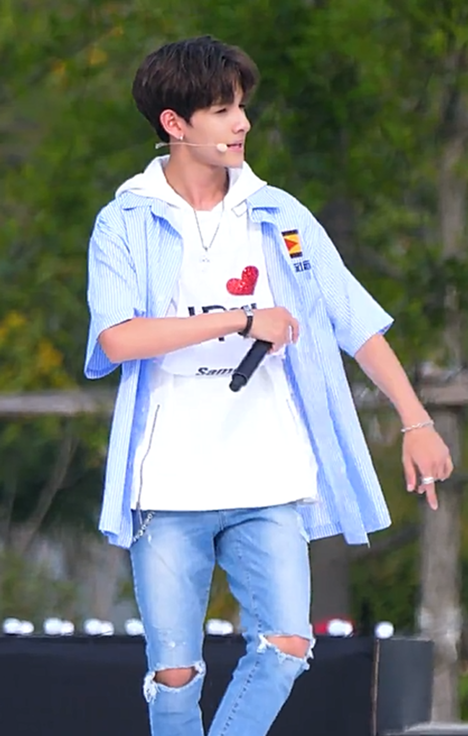 Samuel Kim performing "I Got It" during rehearsal at Sky Festival on September 3, 2017.